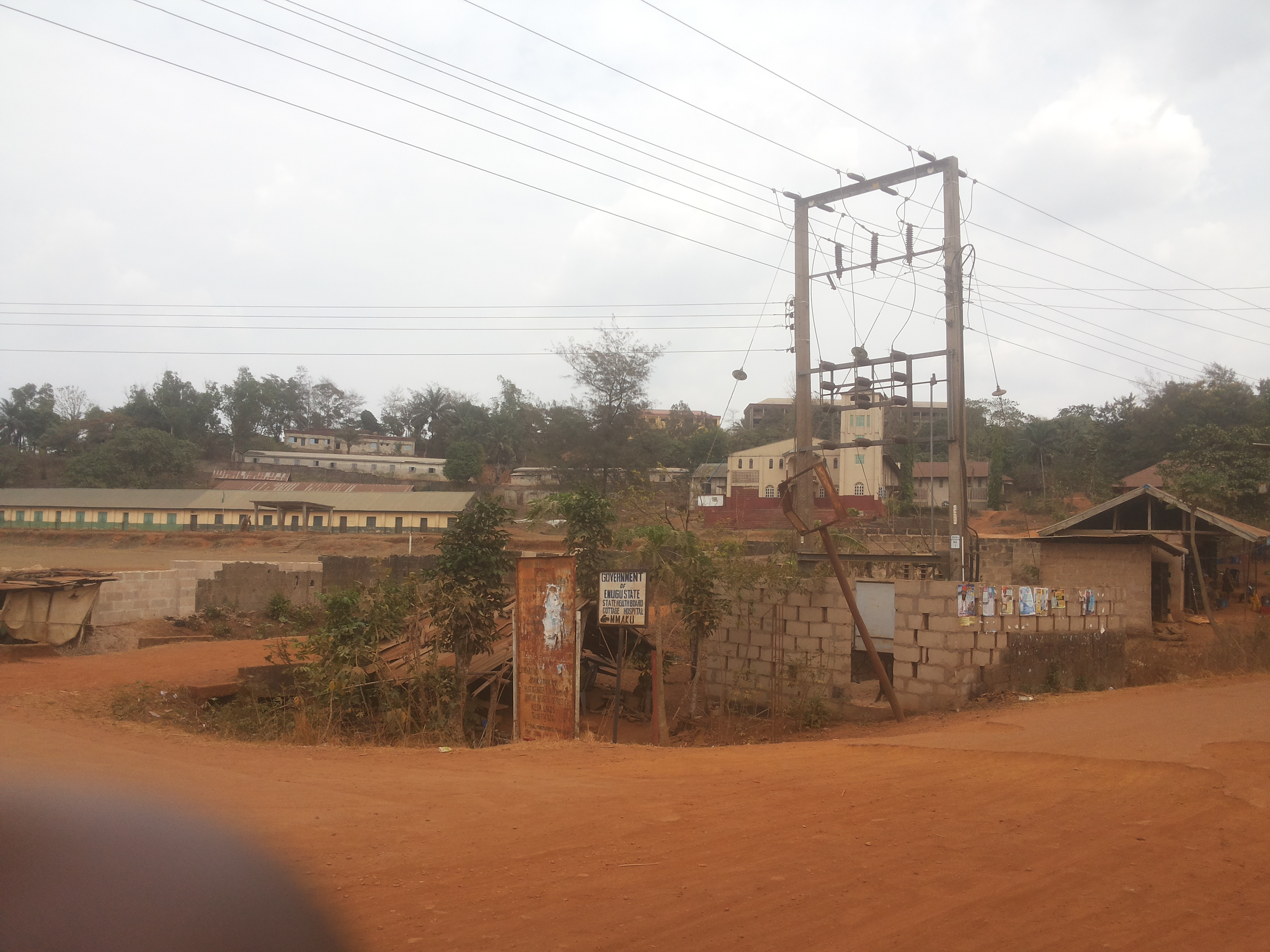 Ajaba Mmaku, Enugu State, Nigeria. View of Mmaku Catholic Centre, showing Central School Mmaku, St. Theresa Catholic Church and St. Theresa Nursery, Primary and Secondary School.